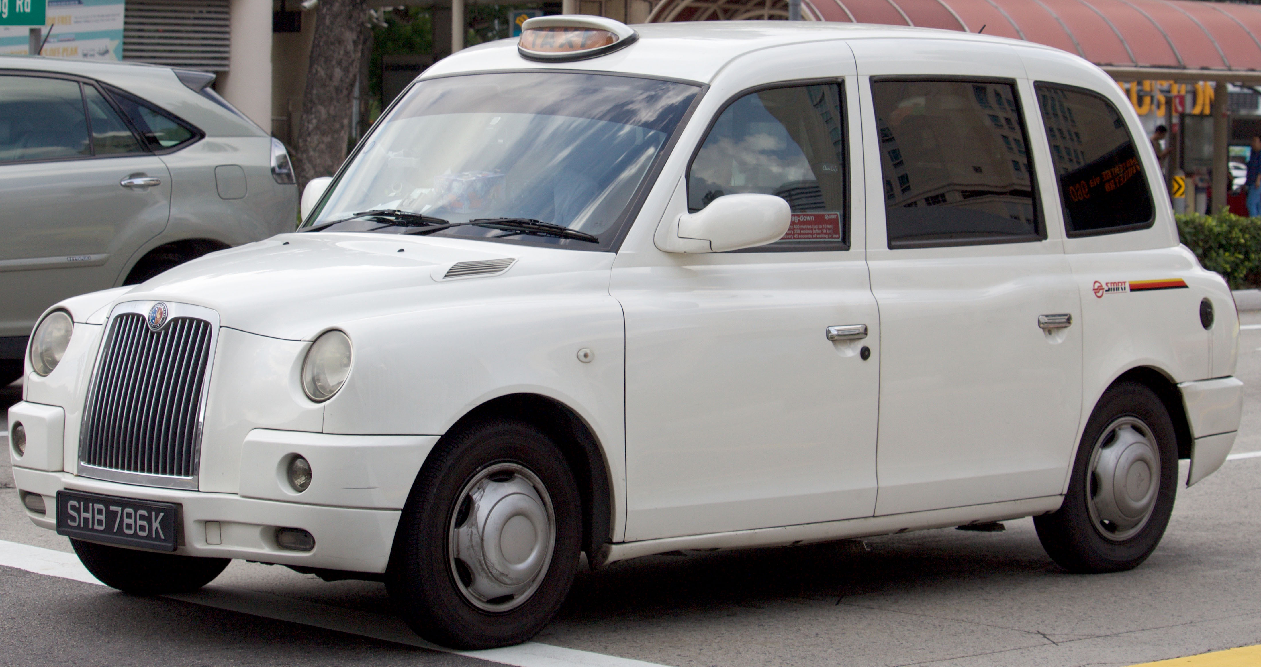 London Cab TX4 2.5 diesel, SMRT owned. Photographed in Singapore. Vehicle registration enquiry resultsJurisdictionSingaporeRegistrationSHB786KChassis codeLJU97C7BXDS000155Engine codeVM62C55804Year of manufacture2013